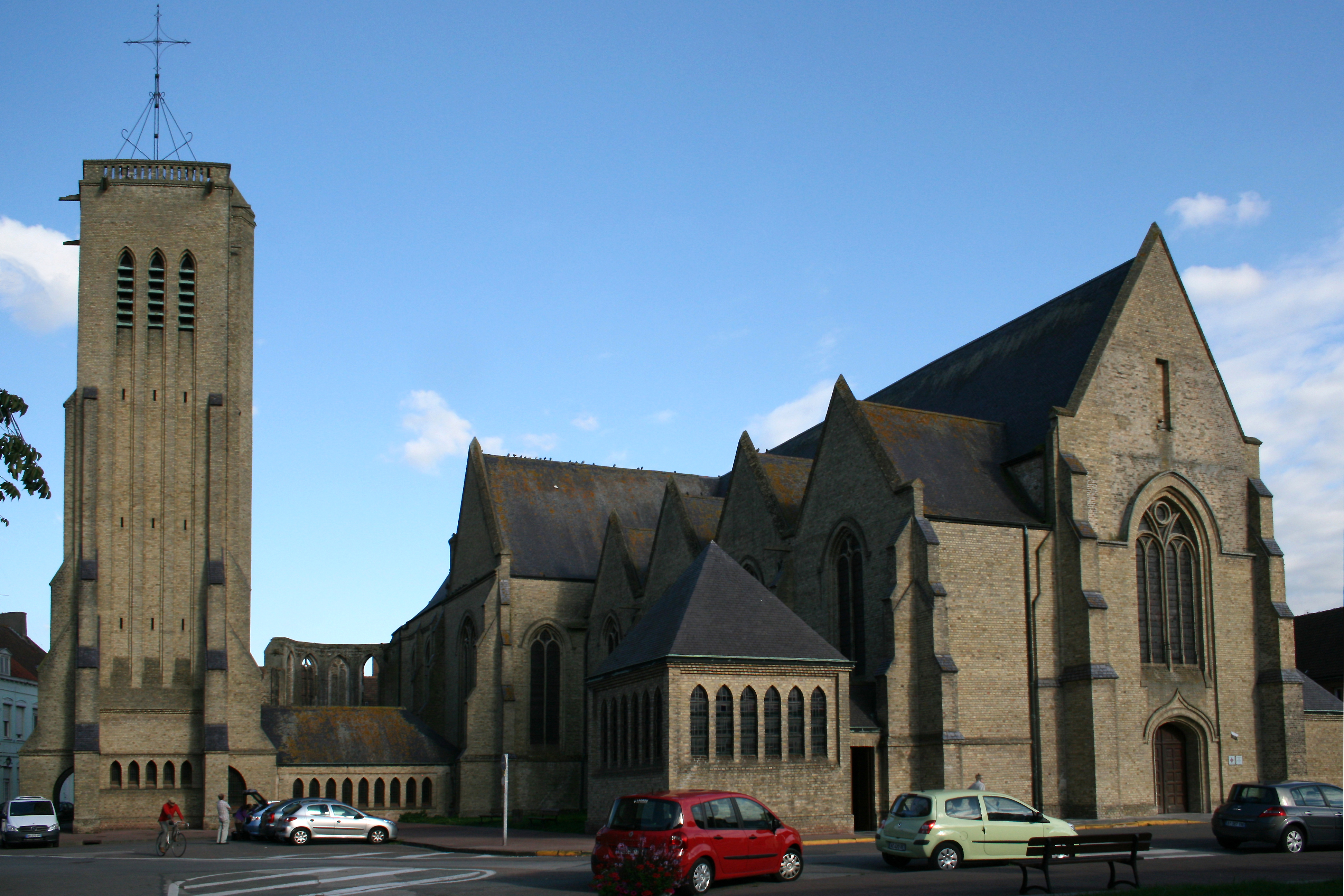 Bergues (Nord) France, the Saint Martin's church.